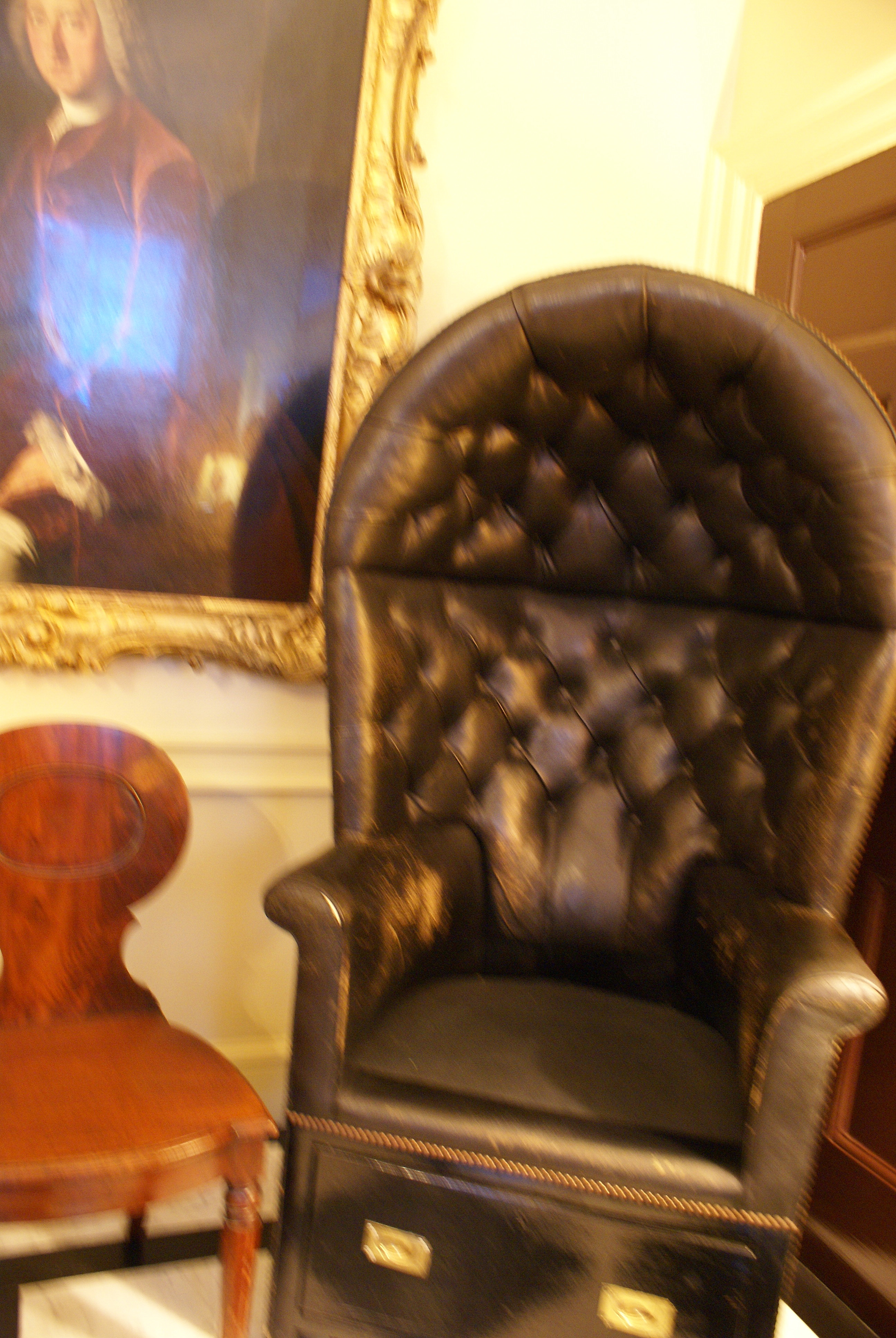 10 Downing Street Guard Chairs - Hooded chair